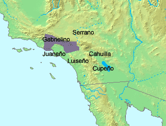 Gabrielino language area in south California. Unreferenced. Uploaded in June 2011.